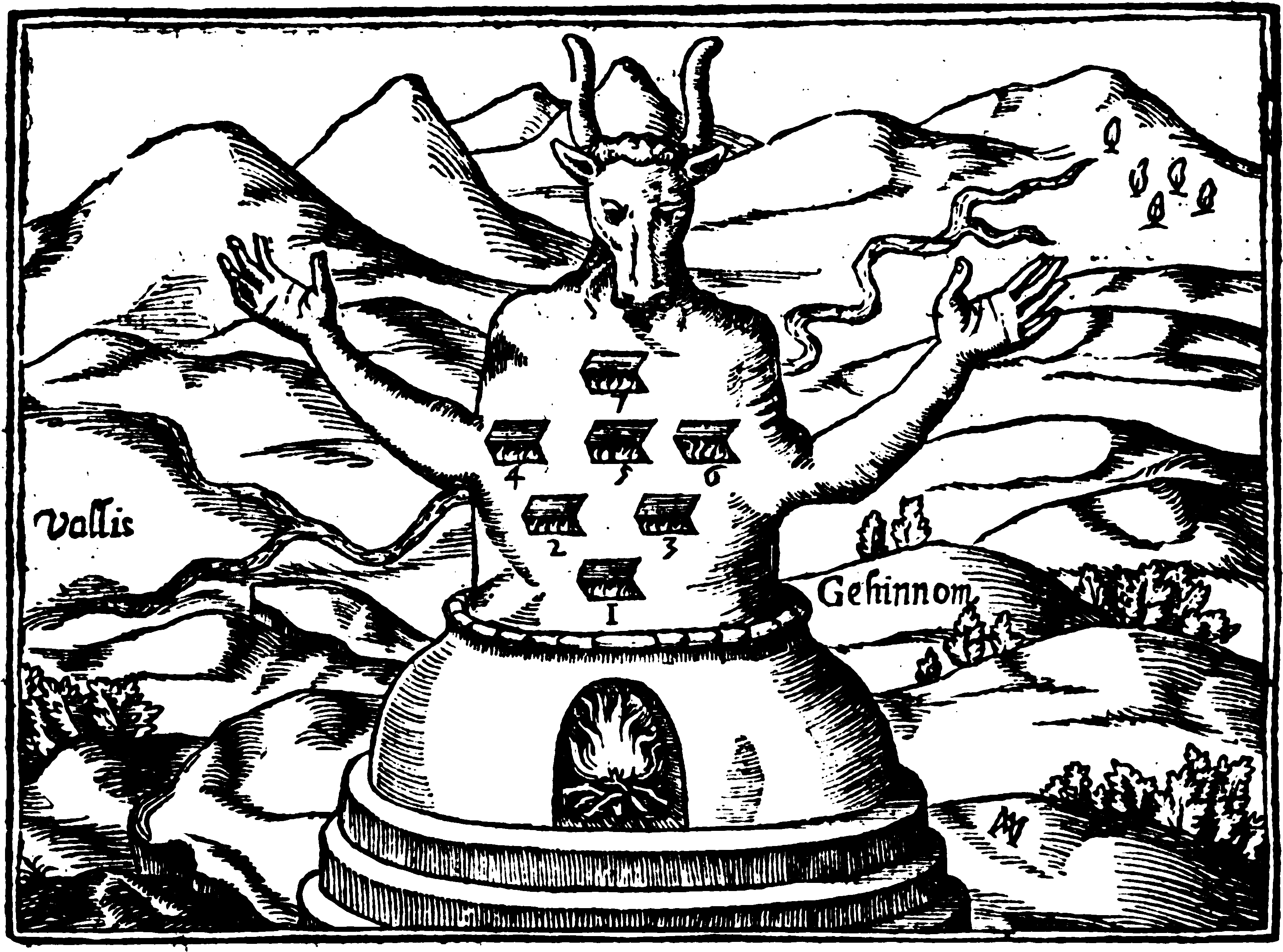 Moloch, from Athanasius Kircher, Oedipus Aegyptiacus, 1652